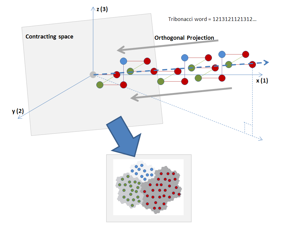 Construction of the Rauzy fractal from the Tribonacci word. Interpret the successive letters of the tribonacci word as unitary vectors in 3D space. Draw the successive points generated by this sequence of vectors. Then project these points into its contracting space. The Rauzy fractal is the closure of that projection.